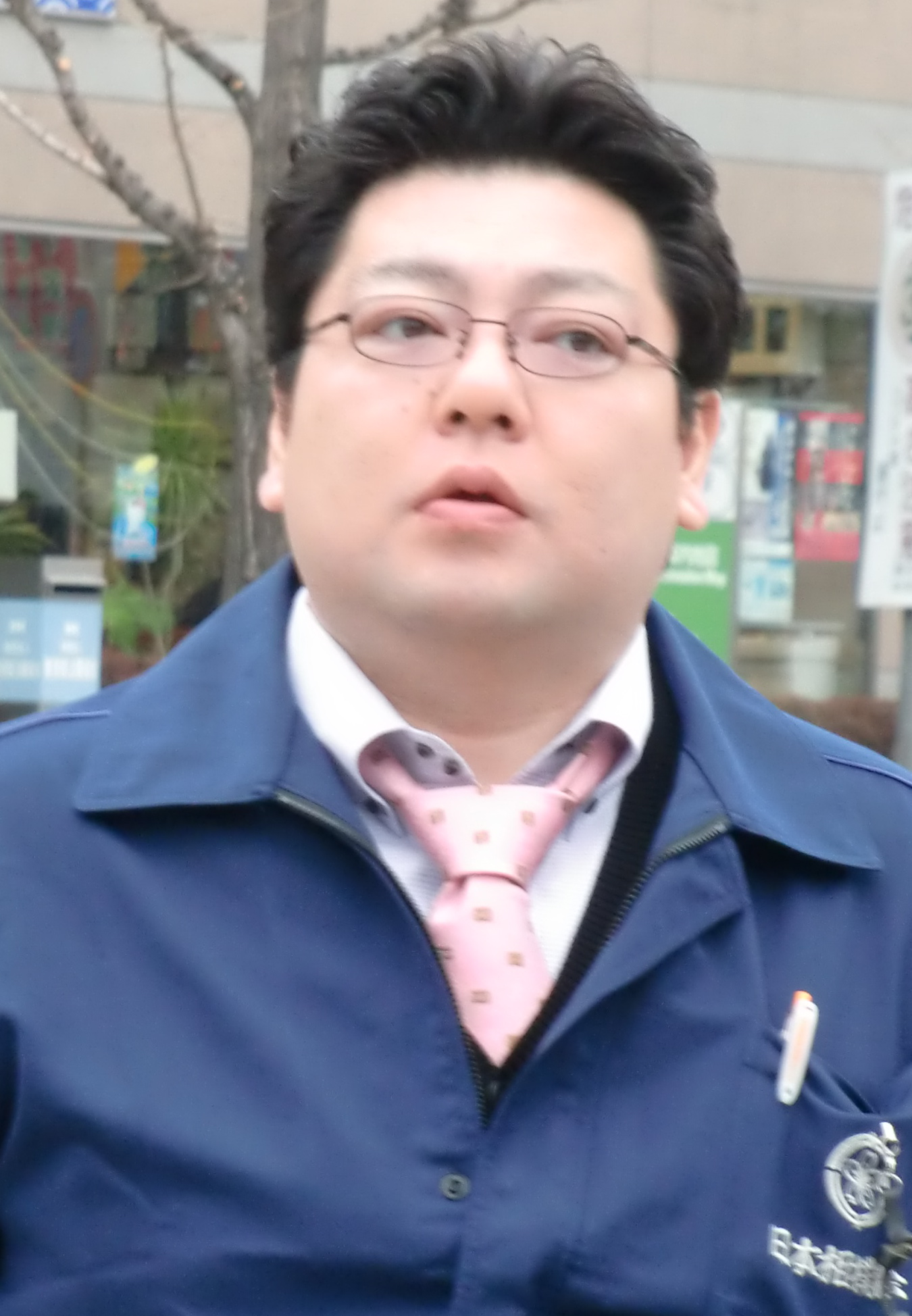 taken outside 2010 January tournament